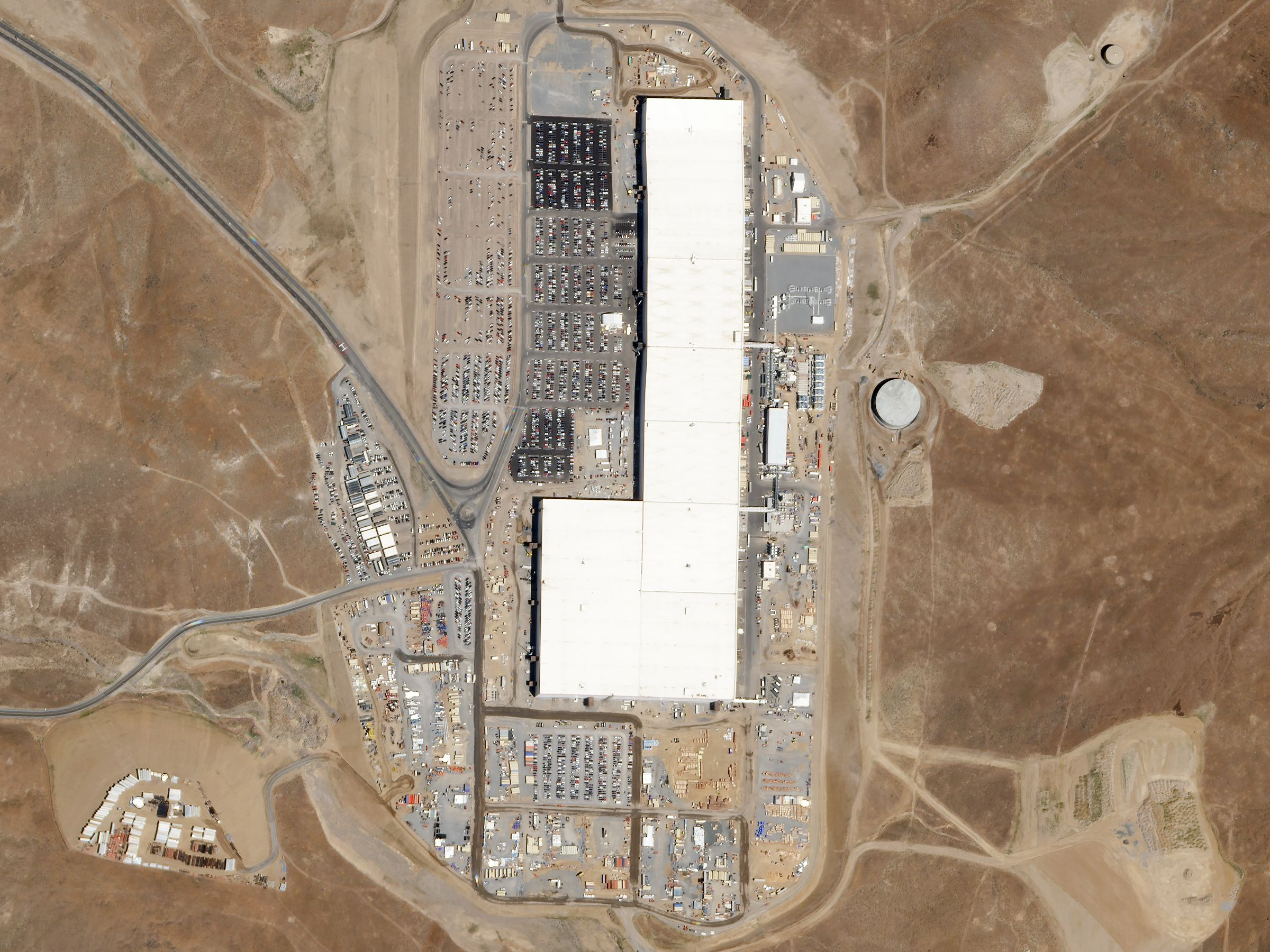 Tesla Gigafactory, Sparks, Nevada on August 8, 2017 Outside of Sparks, Nevada, construction of Tesla's "Gigafactory" progresses over a 15-month period. The enormous plant now manufactures the unique battery packs that power Tesla's new Model 3 vehicle. Data analysis firms like Genscape use Planet imagery and other complementary datasets to analyze the health of the world's manufacturers.